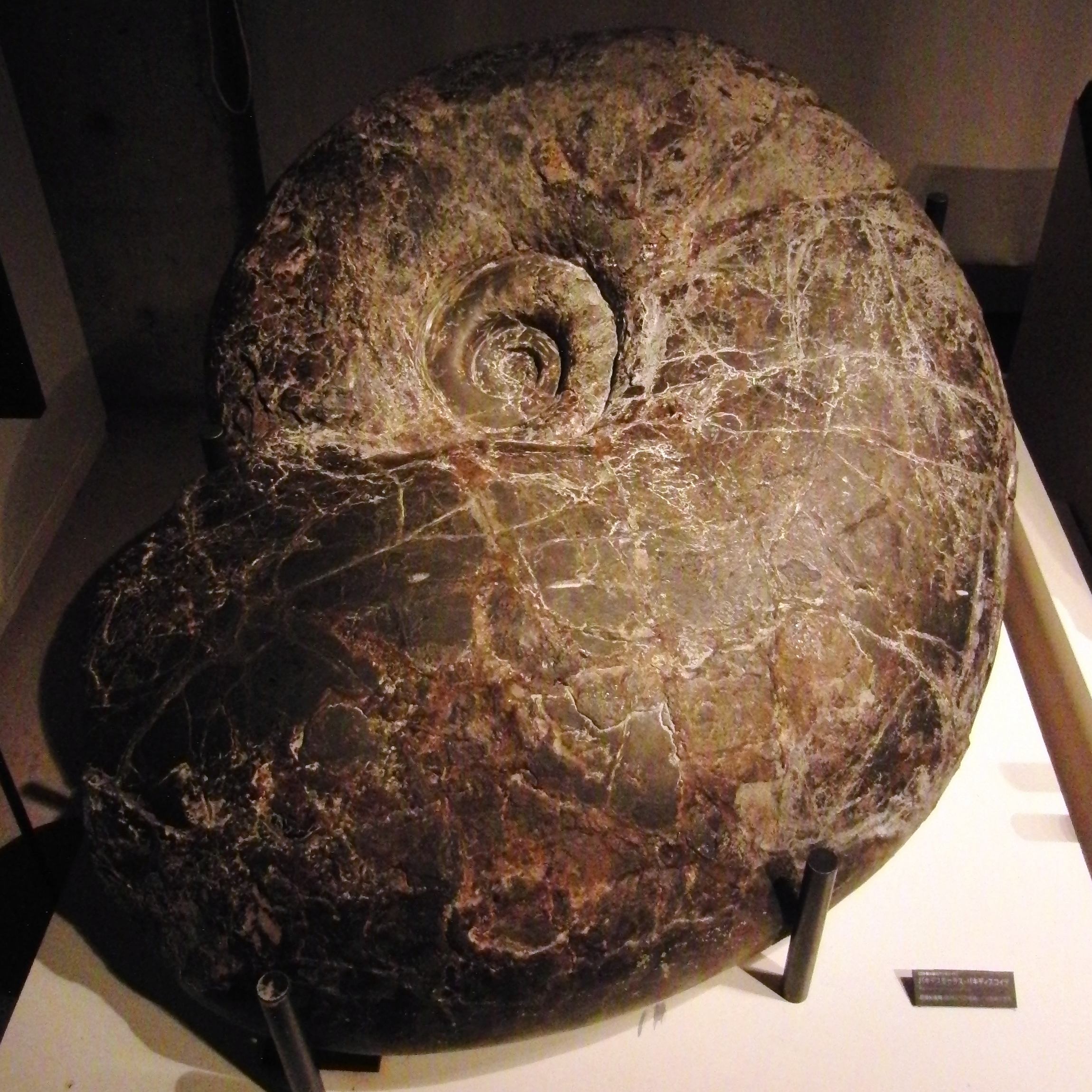 Fossil of Pachydesmoceras pachydiscoide from Mikasa, Hokkaido, Japan. Late Cretaceous. Exhibit in the National Museum of Nature and Science, Tokyo, Japan.